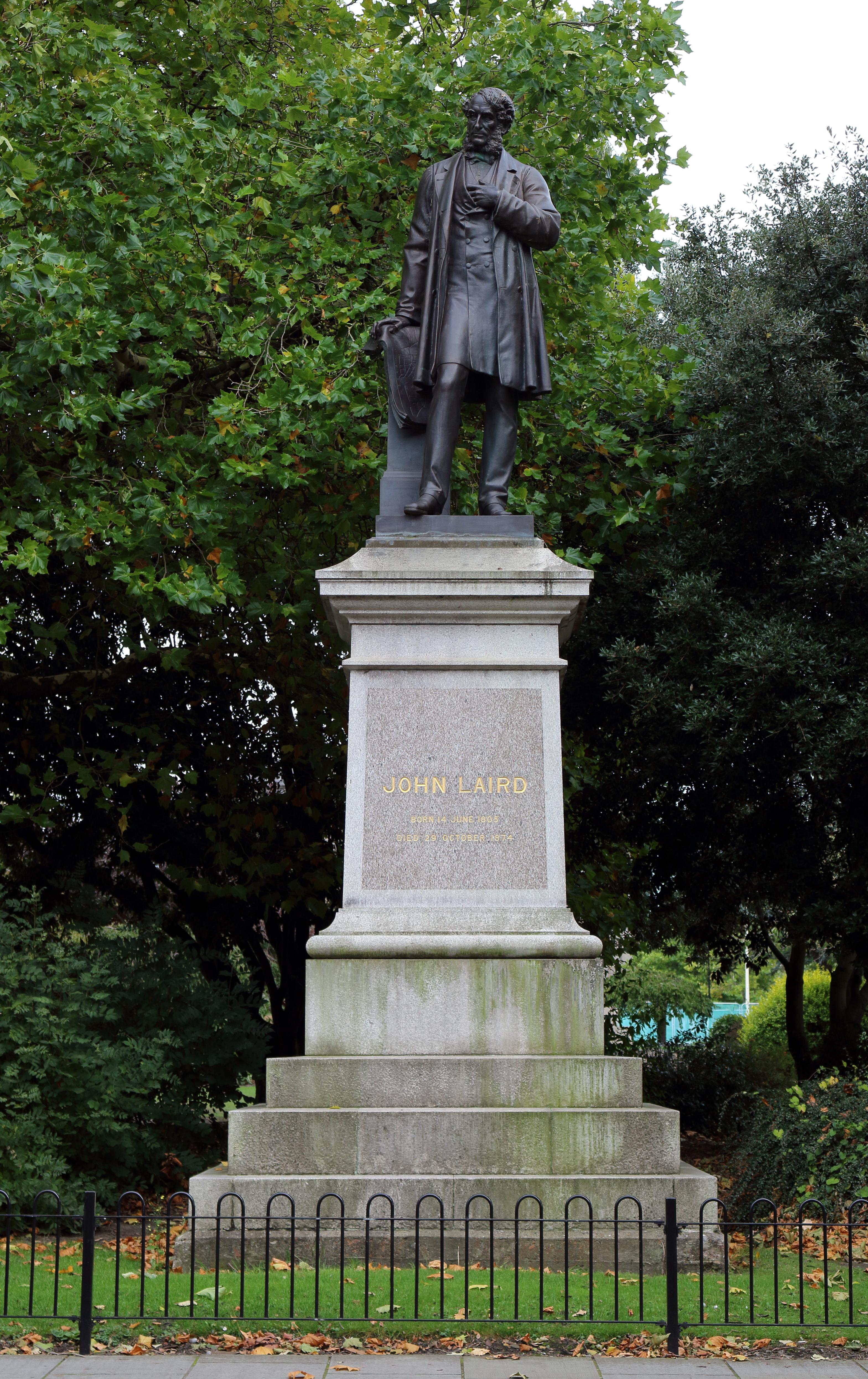 Statue of John Laird, shipbuilder and major creator of Birkenhead's wealth, on the west side of Hamilton Square.